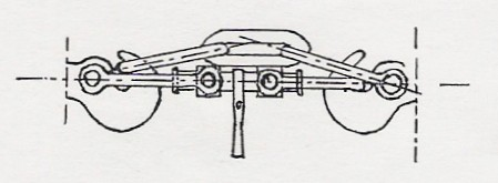 Japanese screw & chain coupler